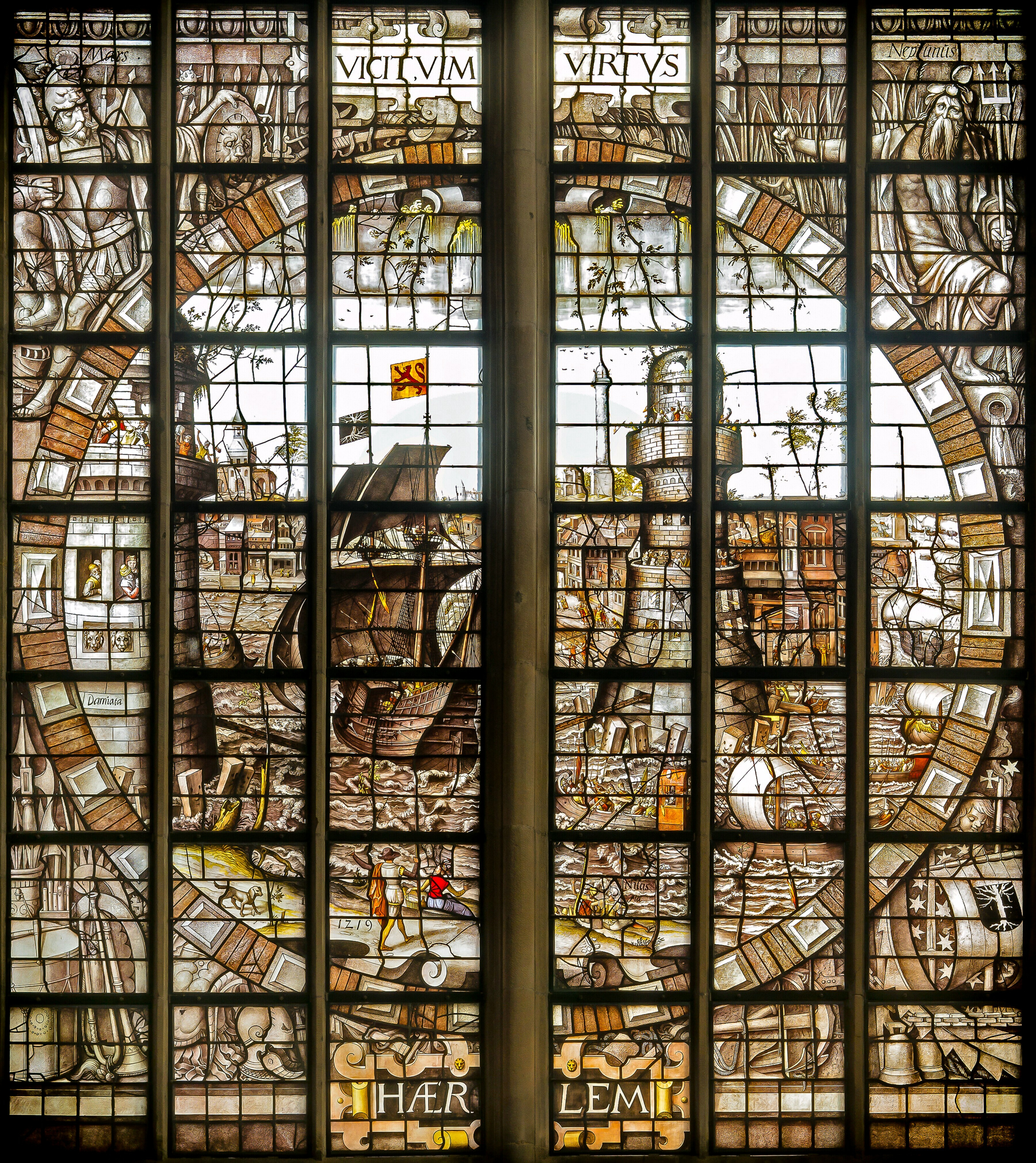 The stained-glass window number 2 (detail) in the Sint Janskerk at Gouda/Netherlands: "The capture of Damietta"